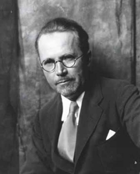 Photograph of John Fabian Carlson, painter.